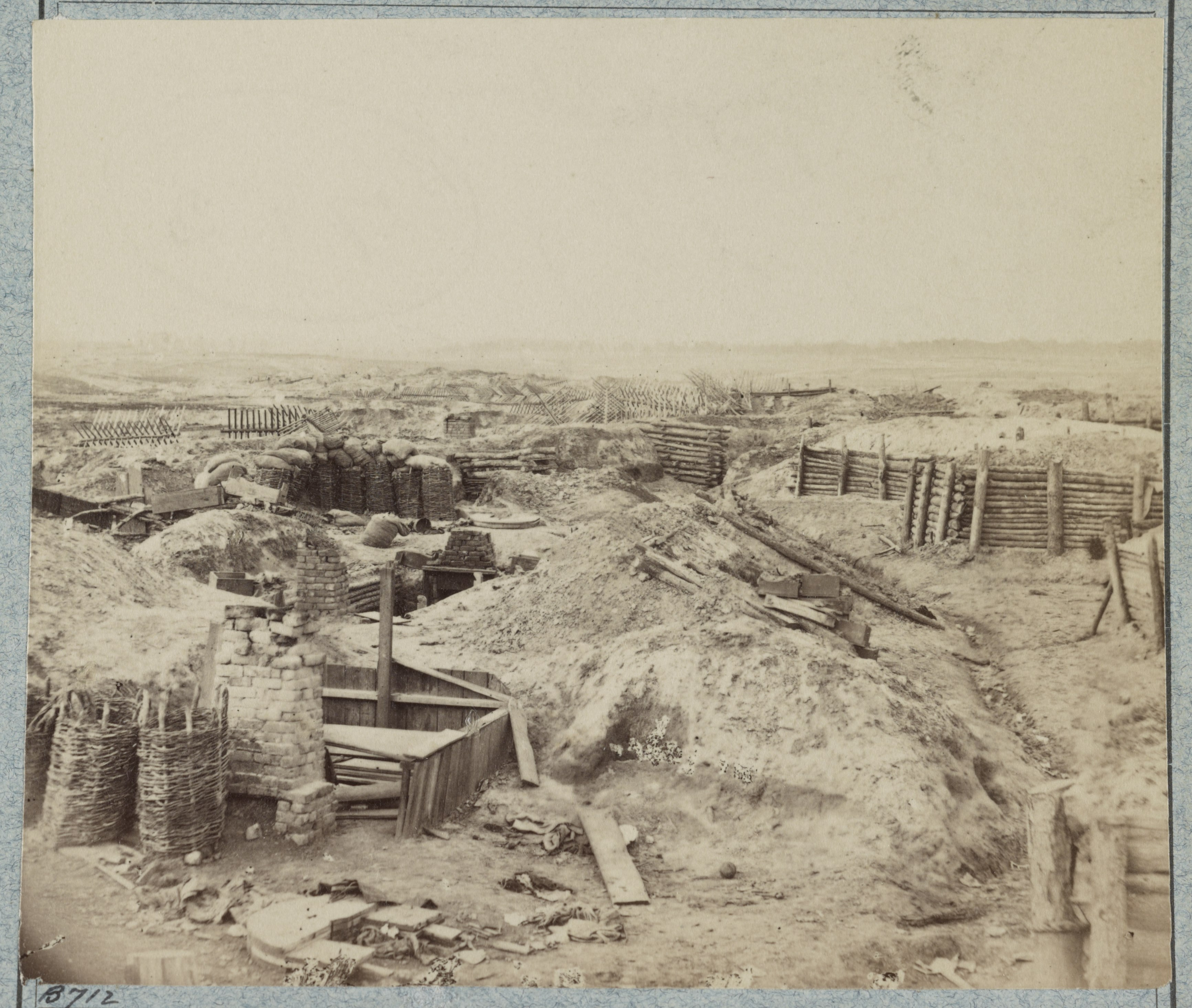 Title: Fort Mahone (Confederate) Physical description: 1 photographic print on card mount : half stereograph, albumen. Notes: Title from item.; Mounted with five other photographs under the general title: Views on the Petersburg Lines.; Forms part of: Civil War Photographs (Anthony-Taylor-Rand-Ordway-Eton collection).; No. 712.